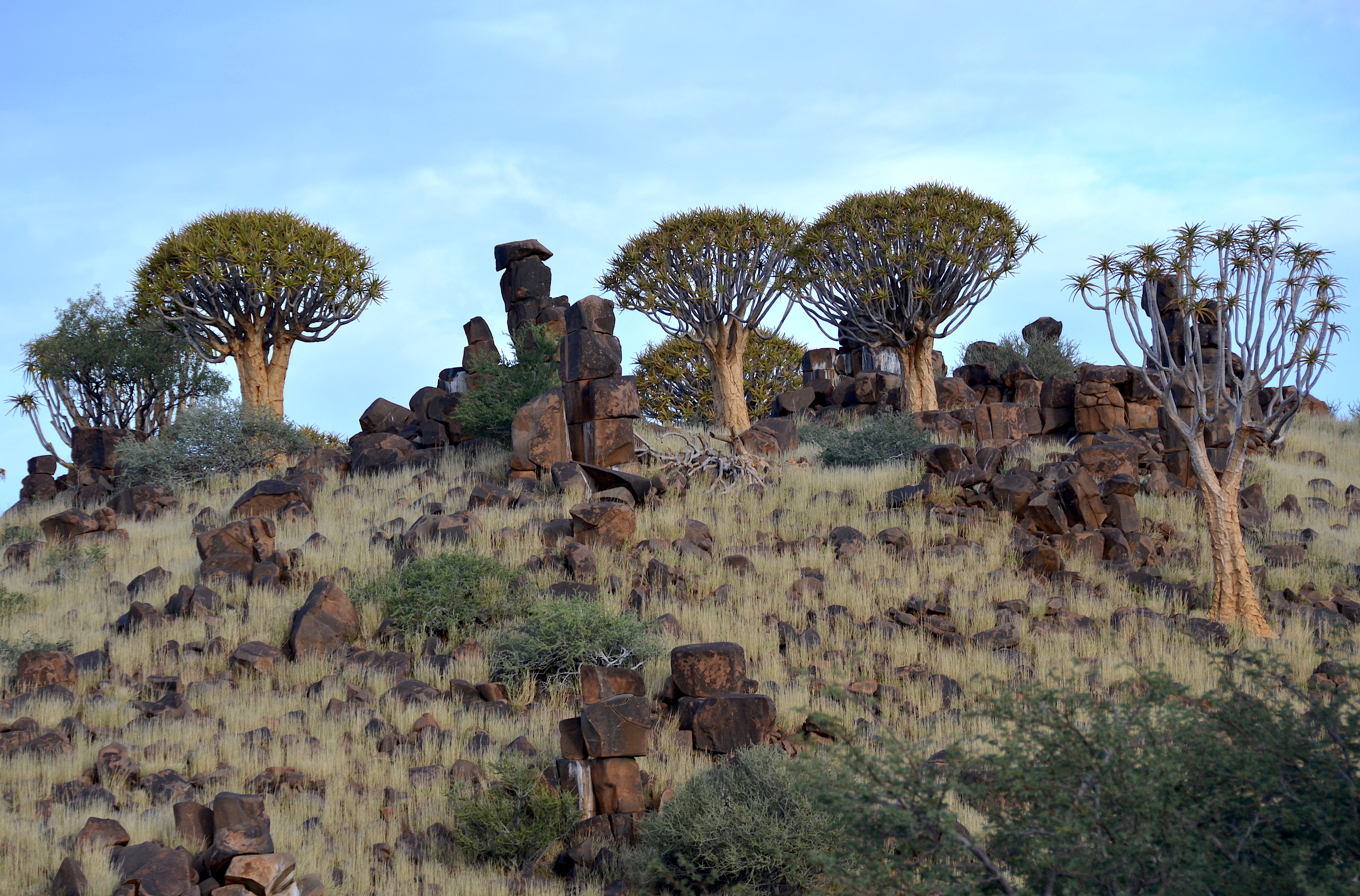 Quiver trees and dolerite rocks near Keeetmanshoop in Namibia (2017)